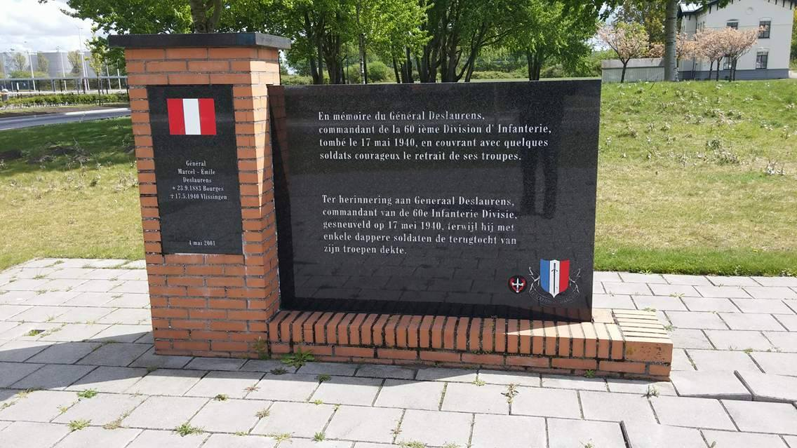 Photograph of monument in Vlissingen for Brigadier General Marcel Deslaurens, who died here in action in WW2.